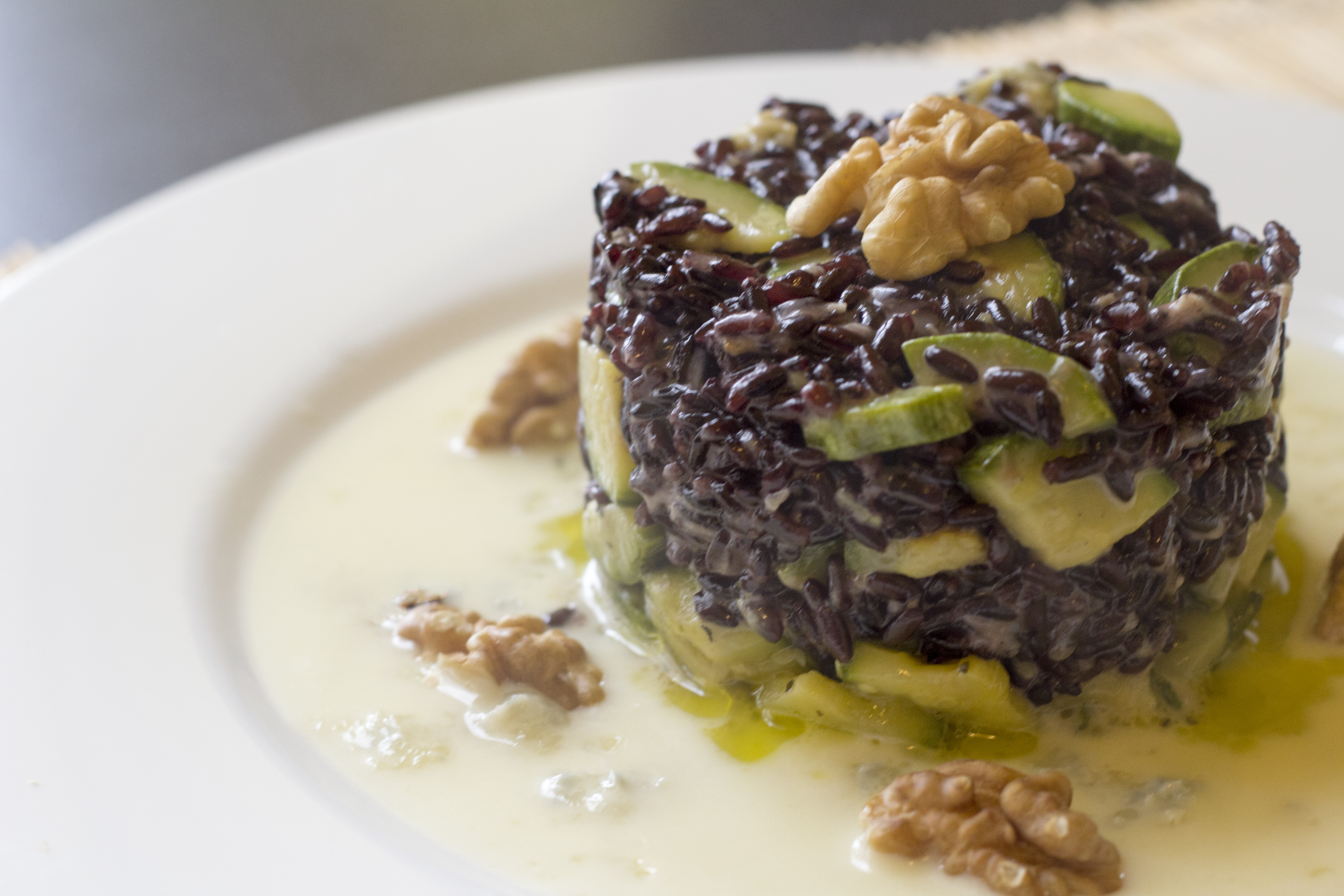 Black rice with white zucchini and Gorgonzola fondue (Recipe in italian with translation available: Mangia con Me )